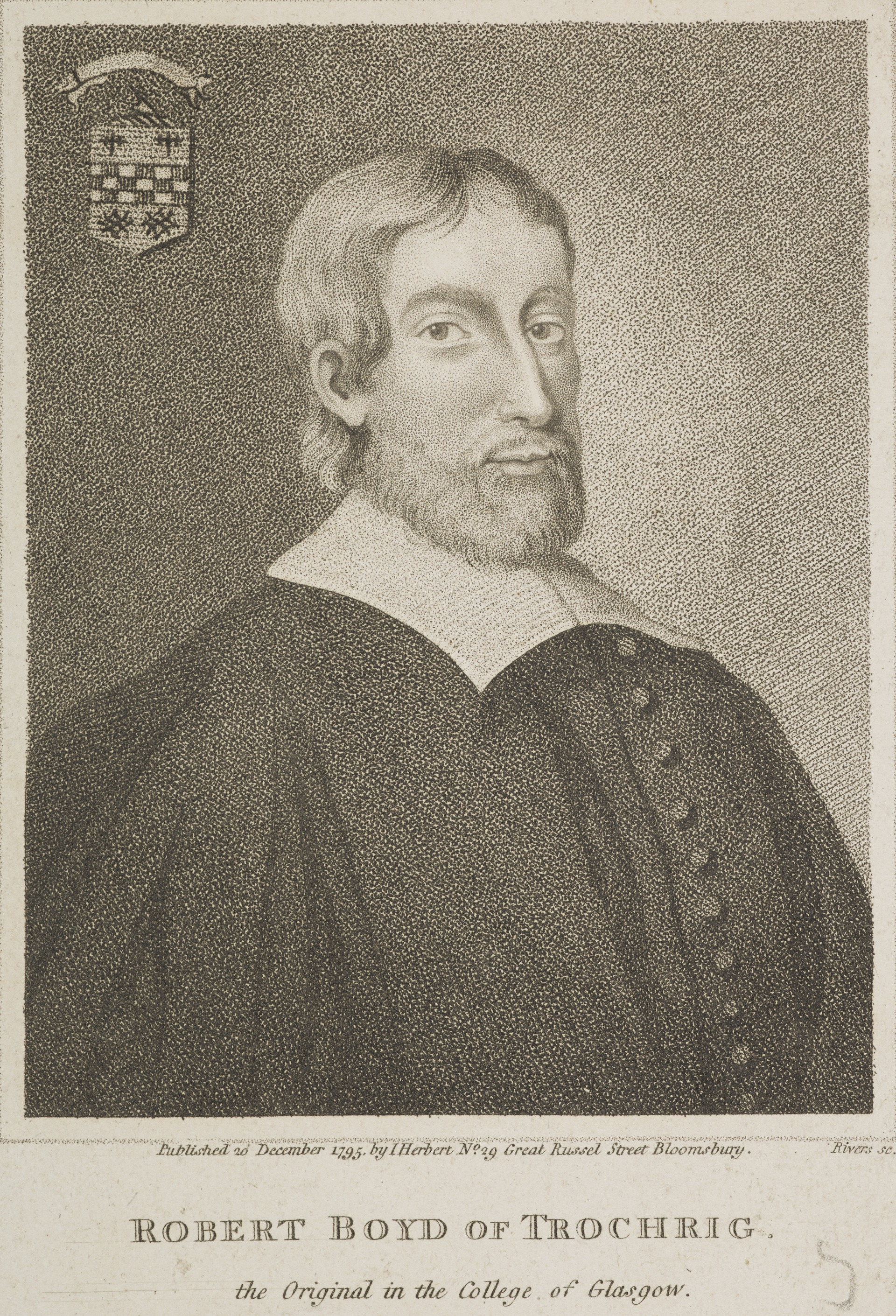 Portrait of Robert Boyd